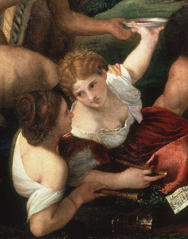 Bacchanal of the Andrians, 1522–1524; oil on canvasmedium QS:P186,Q296955;P186,Q4259259,P518,Q861259; 175 × 193 cm (68.8 × 75.9 in)